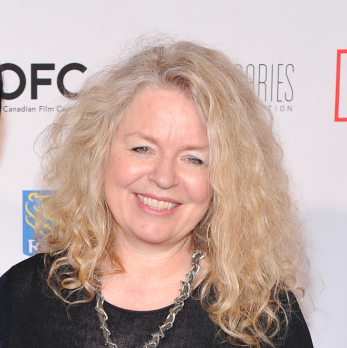 Heather Conway, EVP English Services at CBC/Radio-Canada, and Patricia Rozema, director/screenwriter Photo by Sam Santos